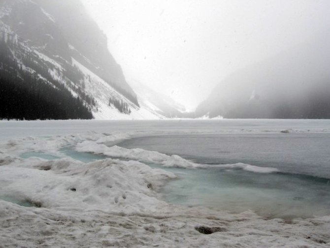 Lake Luise in winter